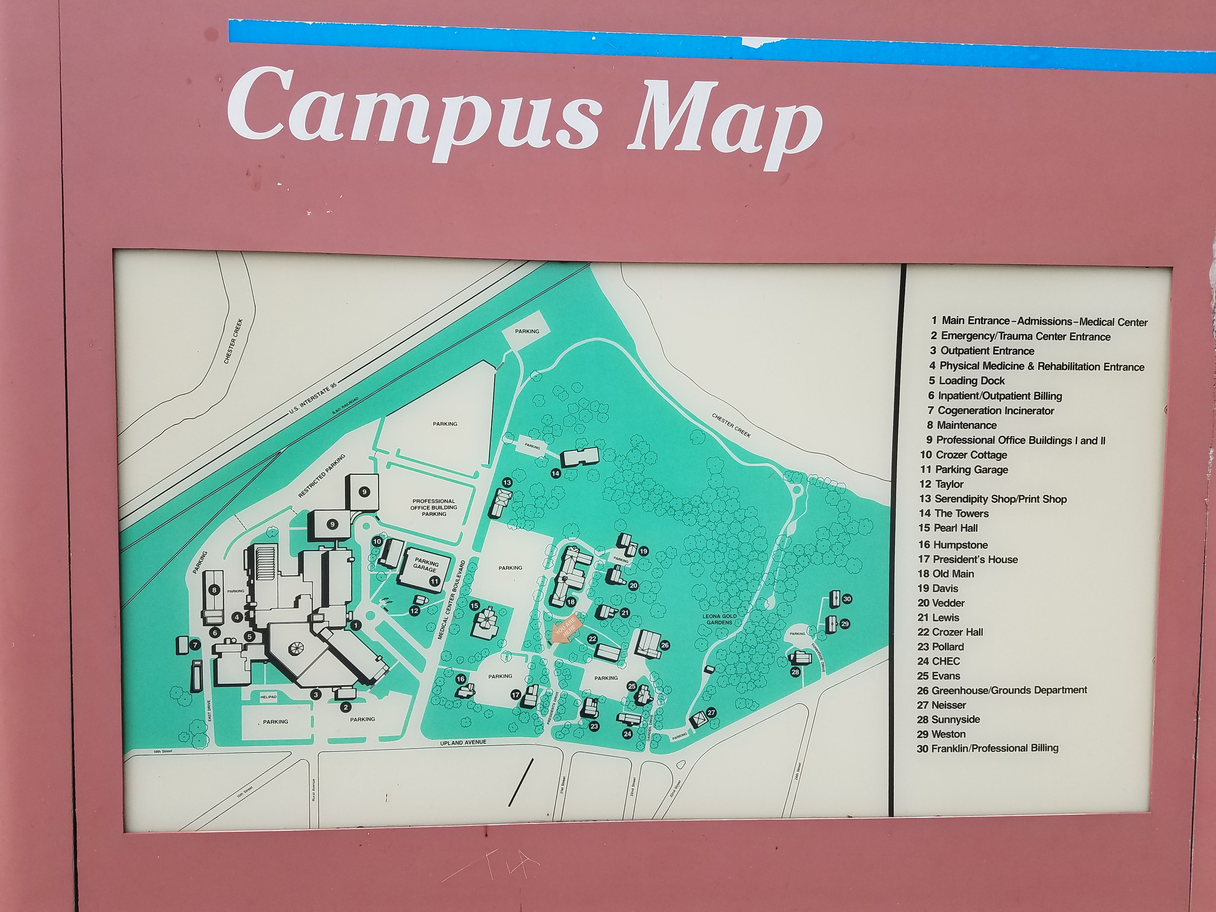 Crozer Chester Medical Center Campus Map - photo taken August 2018